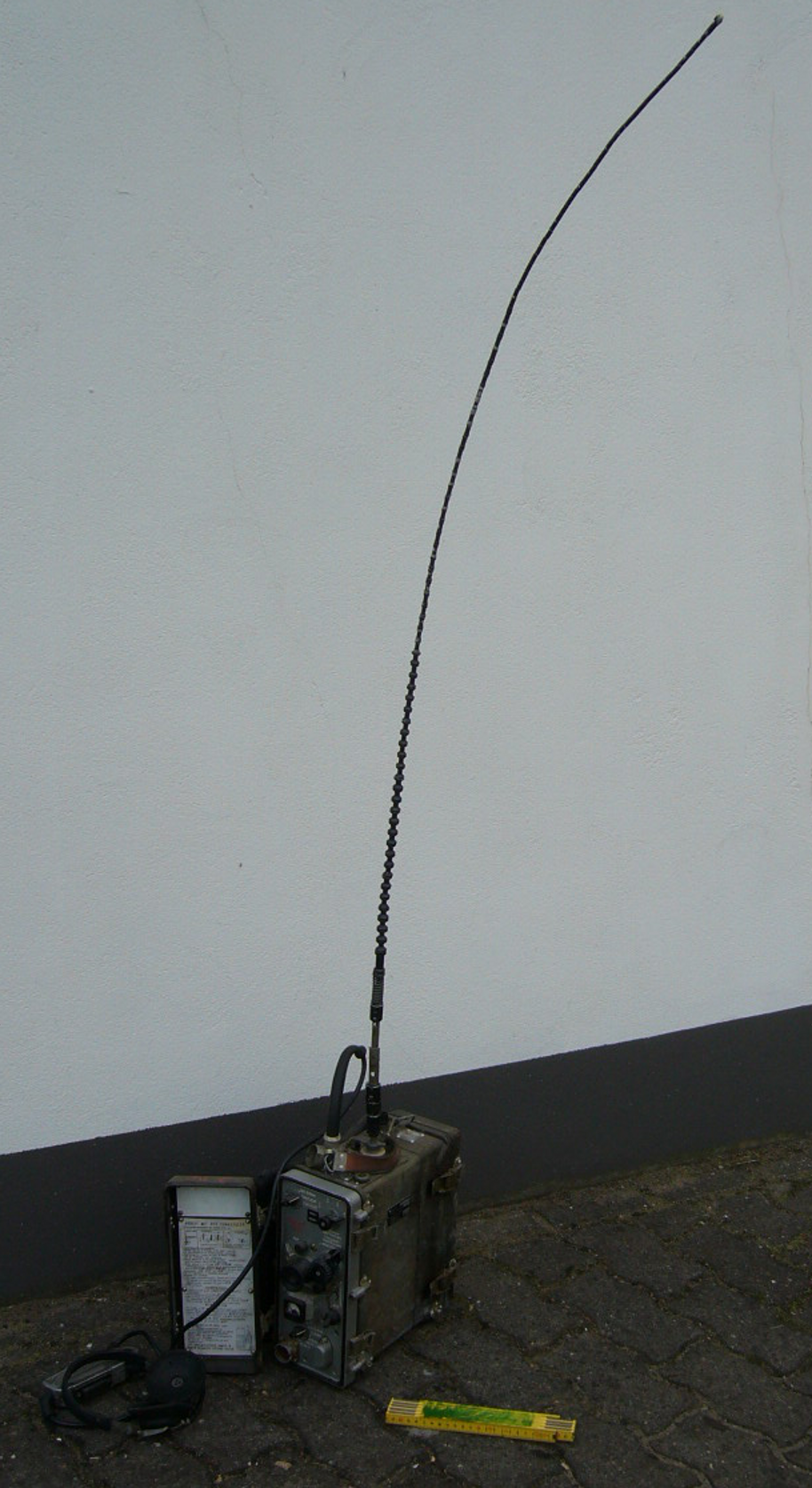 Strained Kulikow antenna, mounted on top of sovjet military radio station R-108M.